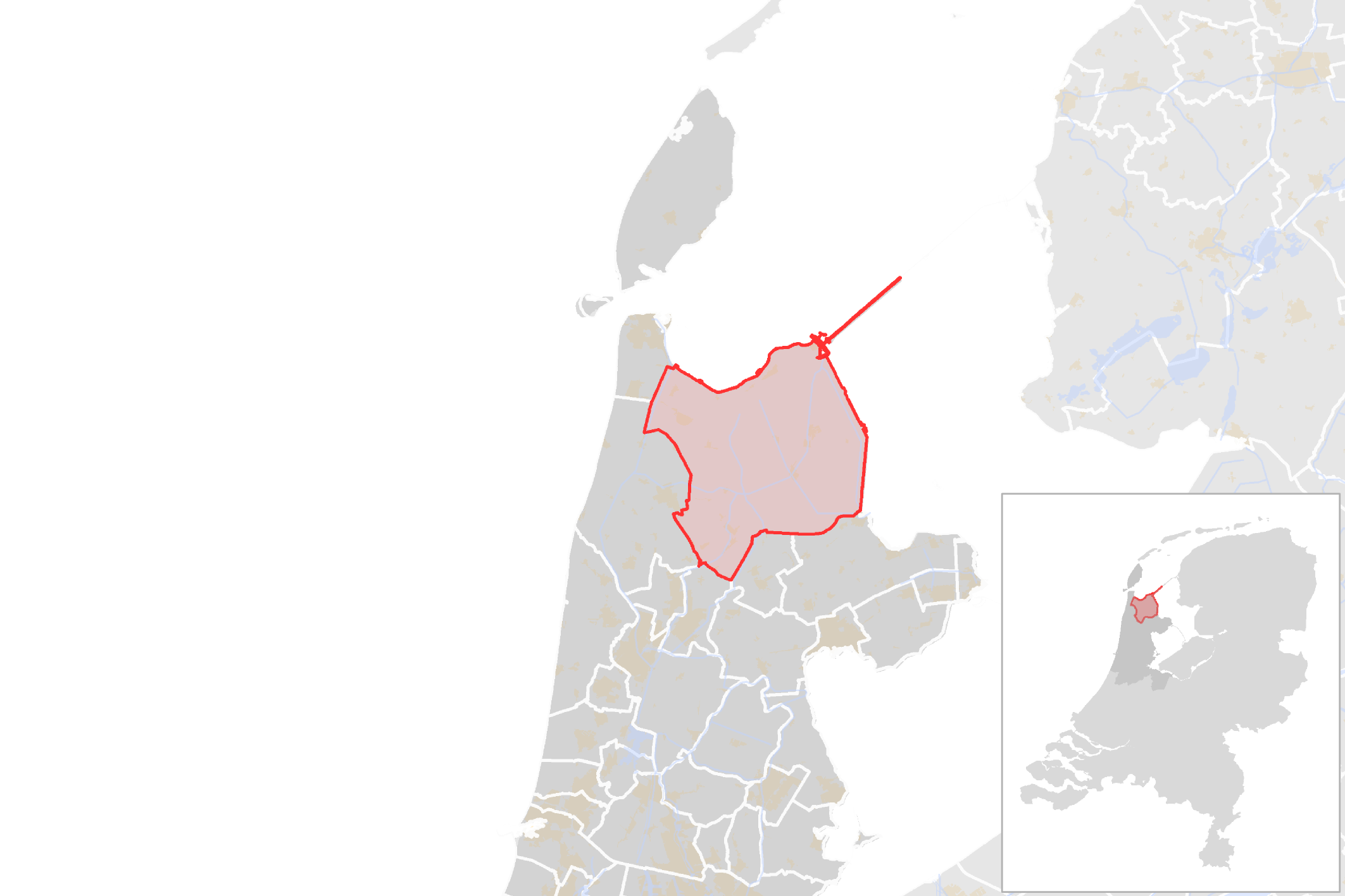 Locator map showing municipality boundary of one of the 390 Dutch municipalities (as of 2016)